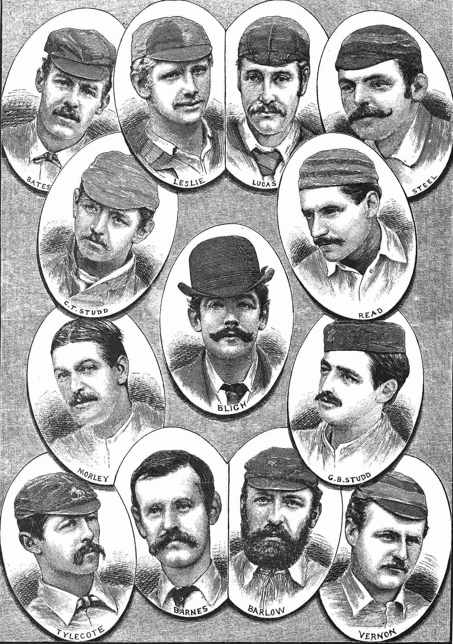 The English Cricket Team which toured Australia in 1882-3 captained by Ivo Bligh.